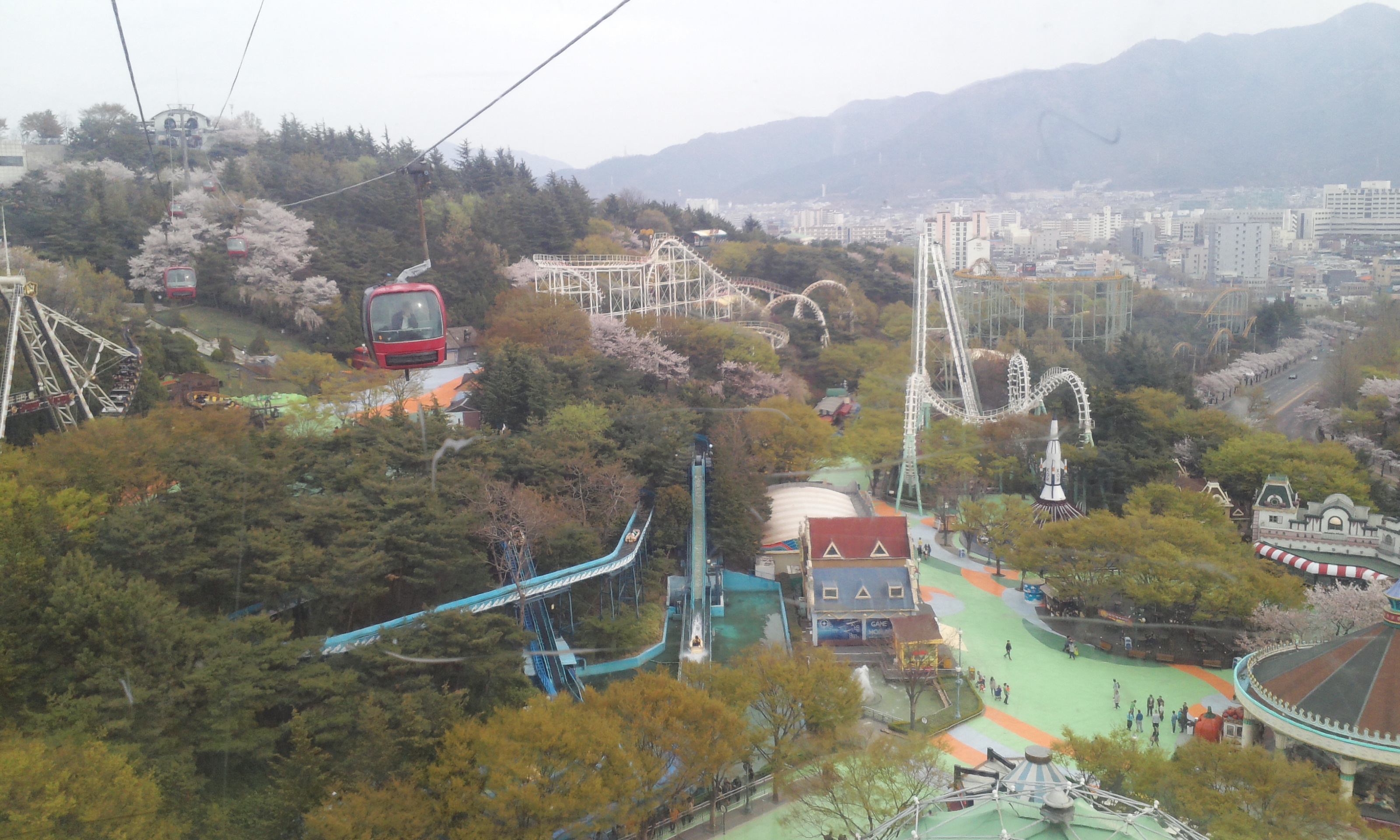 This photo was taken in E World, Daegu.